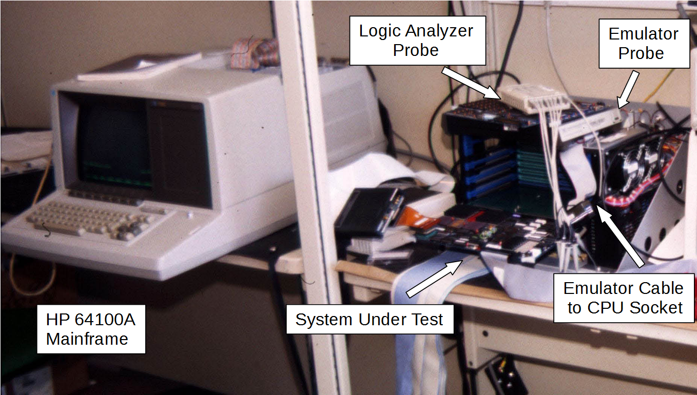 HP 64100A Logic Development System being used to debug a microprocessor system. Original photo from reversed, cropped and labels added. Original photo attribution: By Paul Downey (Flickr) [CC BY 2.0 ( via Wikimedia Commons